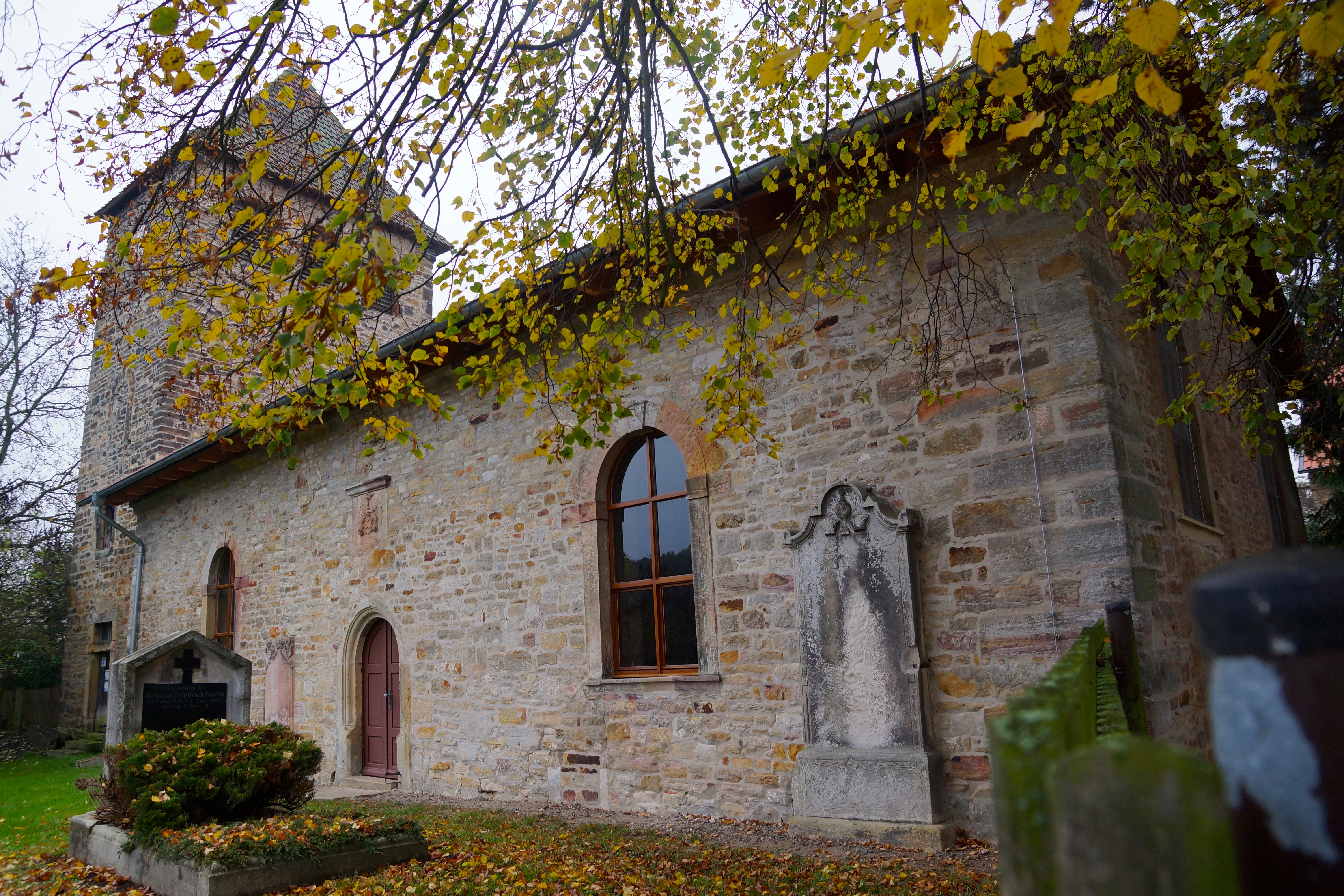 Wanzleben-Börde (Eggenstedt), Germany: Church Northside and tower